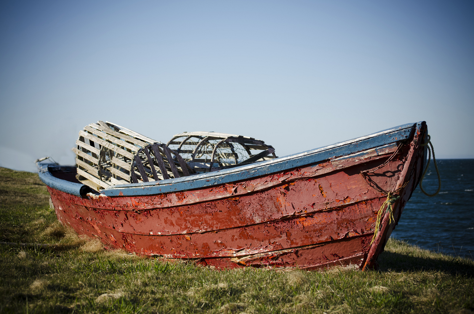 Old dory used for cod fishing in Newfoundland, Canada